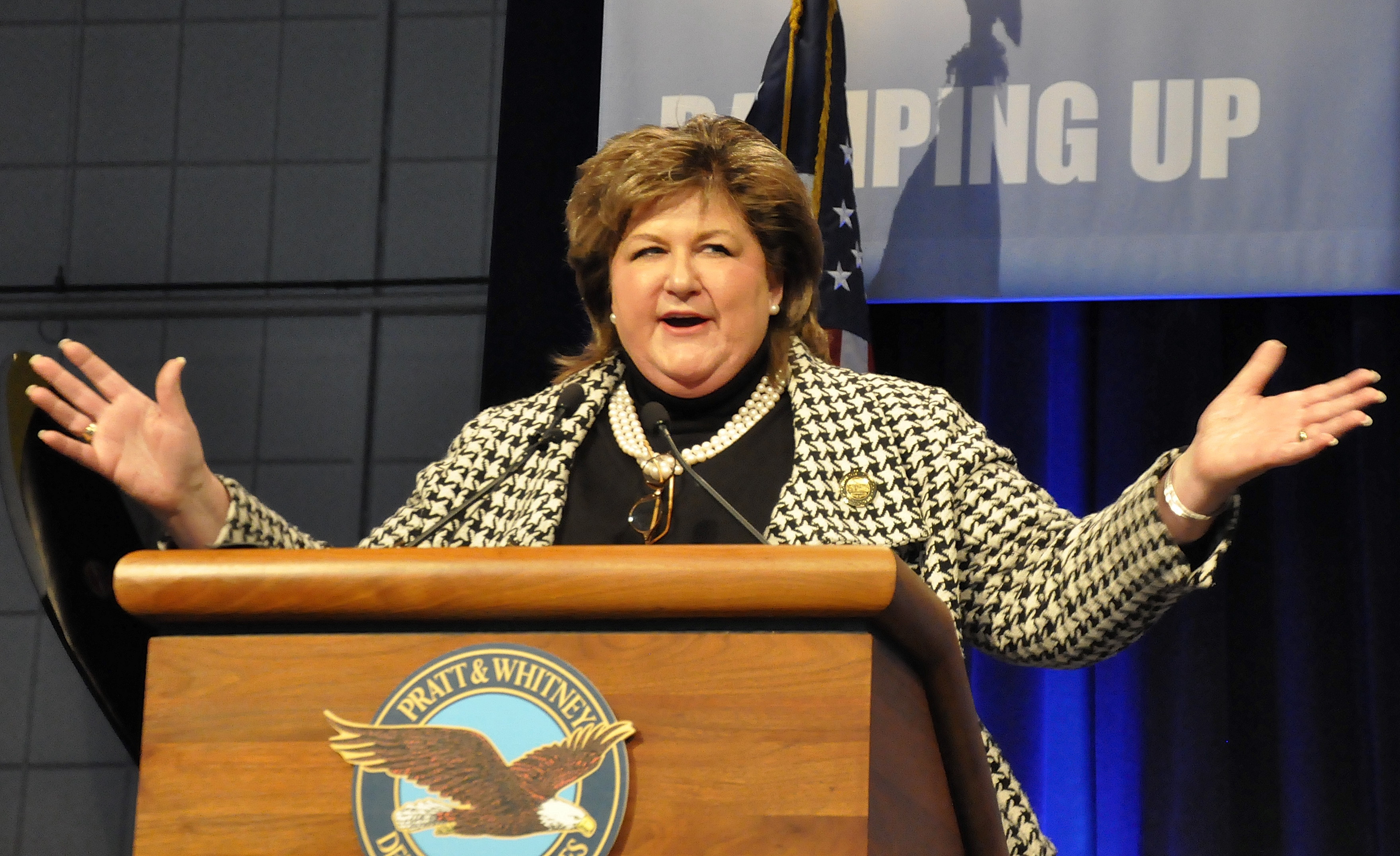 March 1 & 2, 2014 - Pratt & Whitney Hangar - Winter Games - Floor Hockey Mayor of East Hartford Marcia Leclerc declares the games open on Mar. 1, 2014. Photo by Barbara Bresnahan.